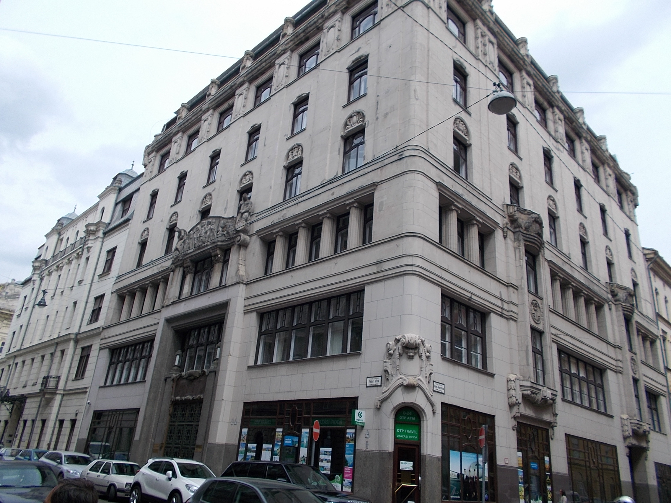 Seven-storey office and apartment building. Corner part. Art Nouveau. By Sámuel Révész and József Kollár architects in 1910. Listed monument ID 566 - Arany János St. 14 & Nádor St. 21, Budapest District V., Hungary.